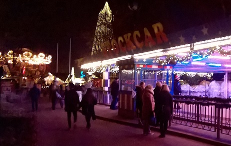 Tivoli Friheden, Aarhus